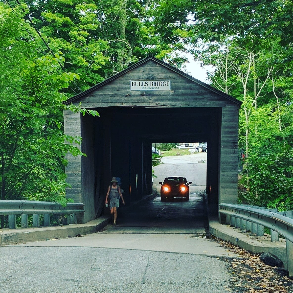 Bulls Bridge in Kent, CT; on the National Register of Historic Places